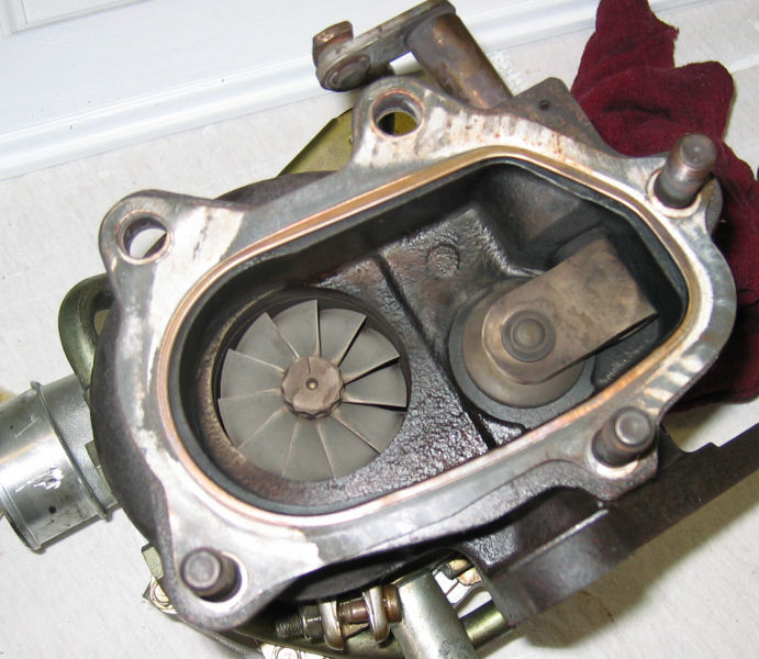 Picture of a IHI VF39 turbocharger from the turbine exhaust side. Removed from a US market 2004 Subaru WRX STI.